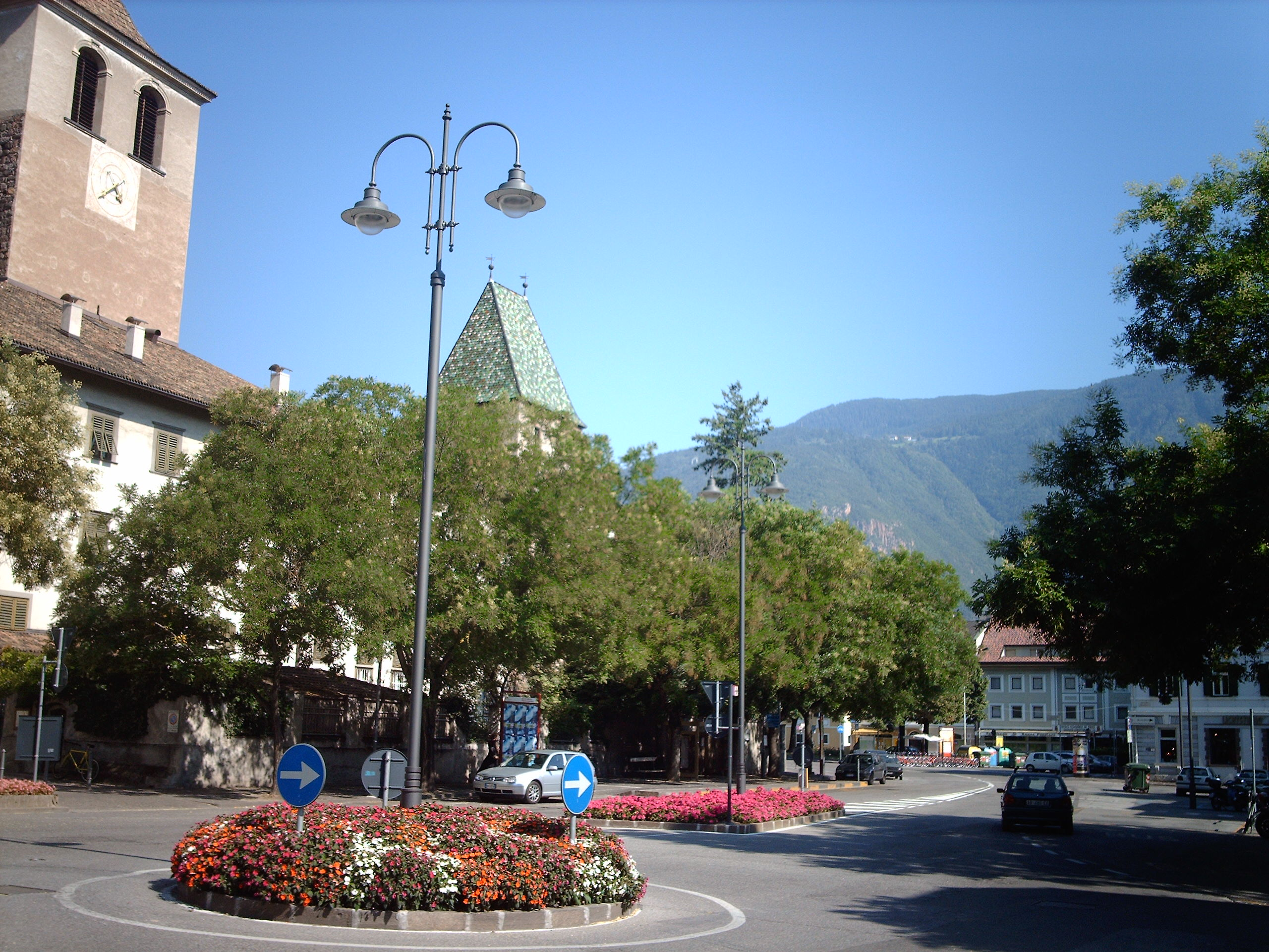 Picture by Skafa